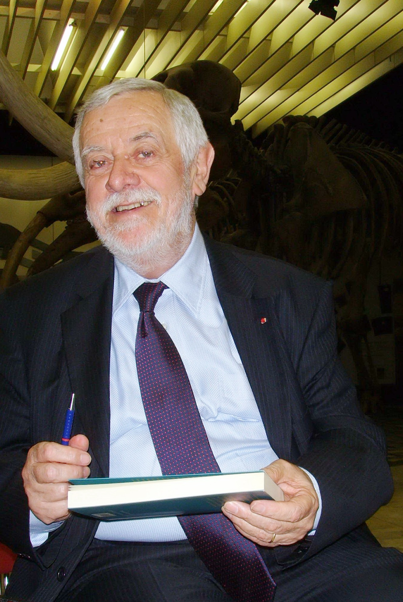 Prof. Yves Coppens, French palaeanthropologist Date: November 15, 2006 Place: Senckenberg-Museum, Frankfurt am Main, Germany author: myself; Gerbil from de.Wikipedia